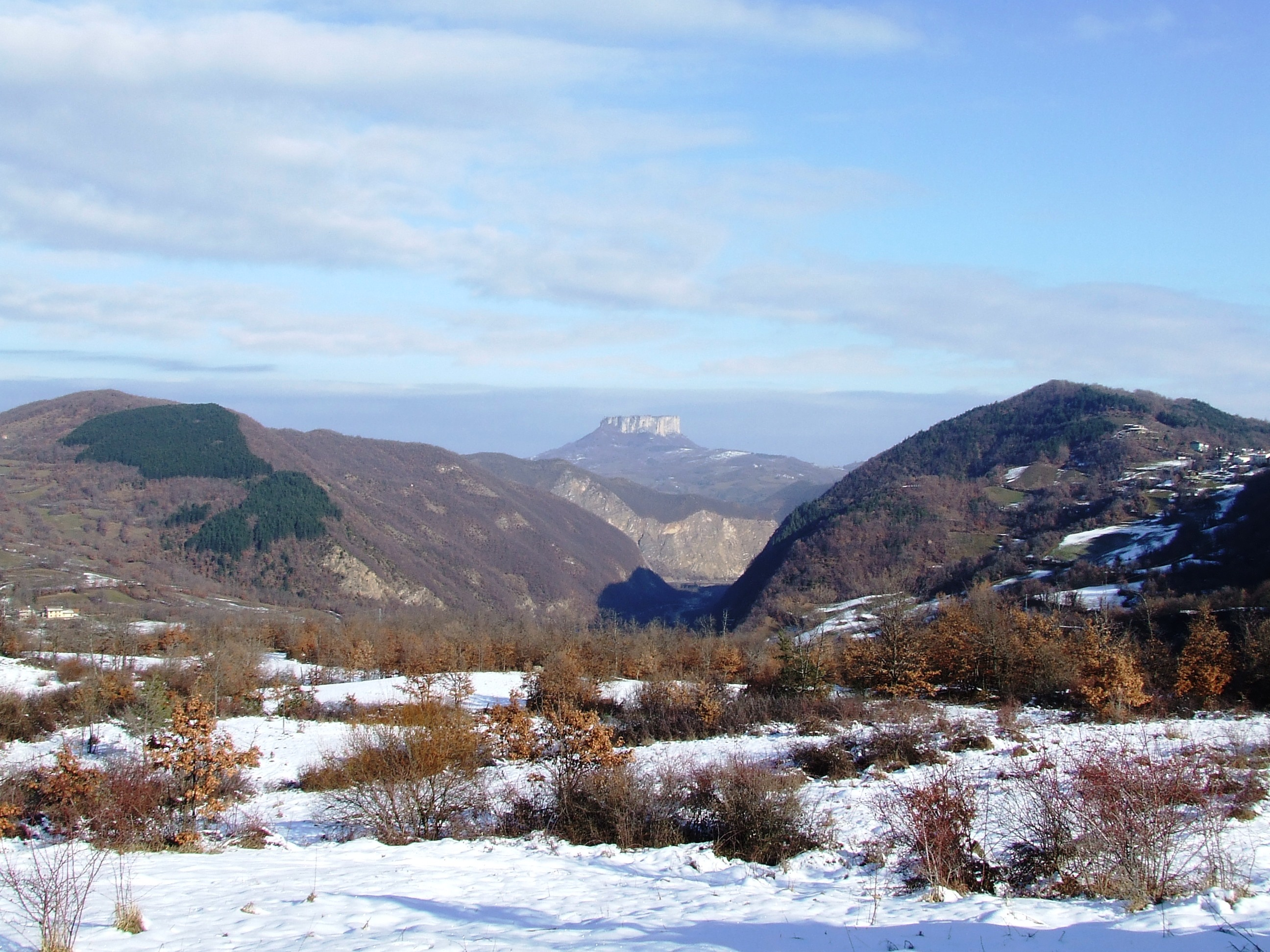 Bismantova Mountain in Central Italy, Castelnovo Monti, Provincia di Reggio Emilia, Italia